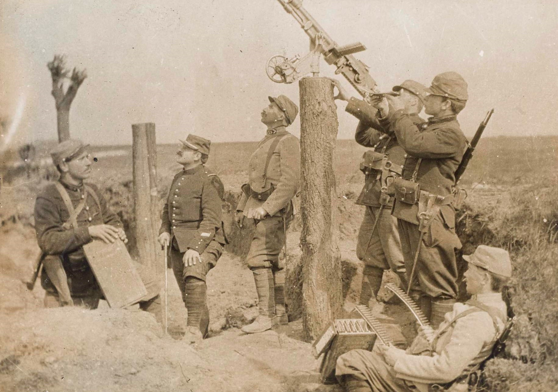 An anti-aircraft Platoon apostat in the trench charged with knocking down German planes in the vicinity of the entrenched camp of "Unknown" with the help of a machine gun fixed on a base of a cut tree.